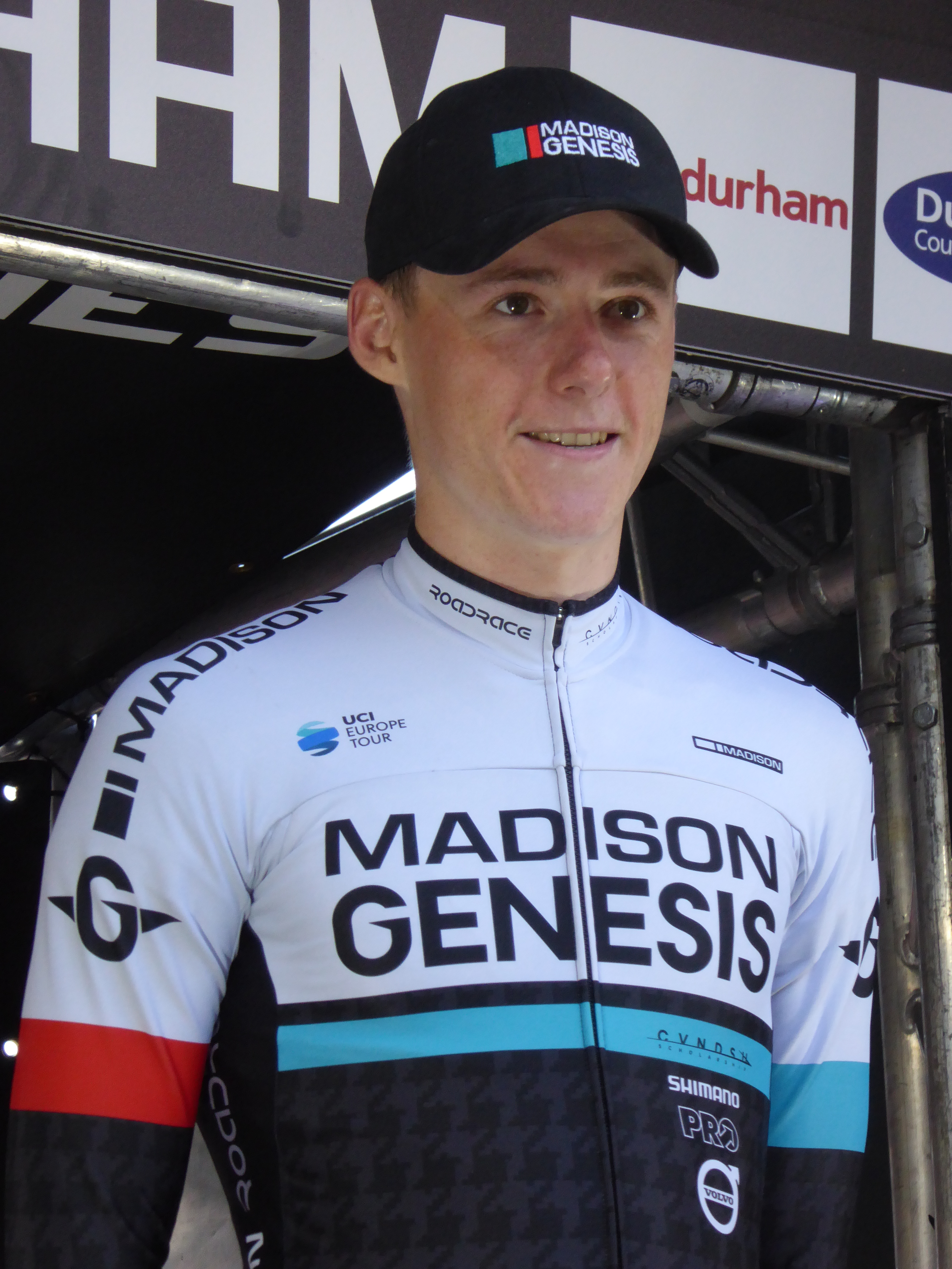 Connor Swift (Madison Genesis), sprints winner of Round 9 of the Tour Series in Durham, on 27 May 2017.